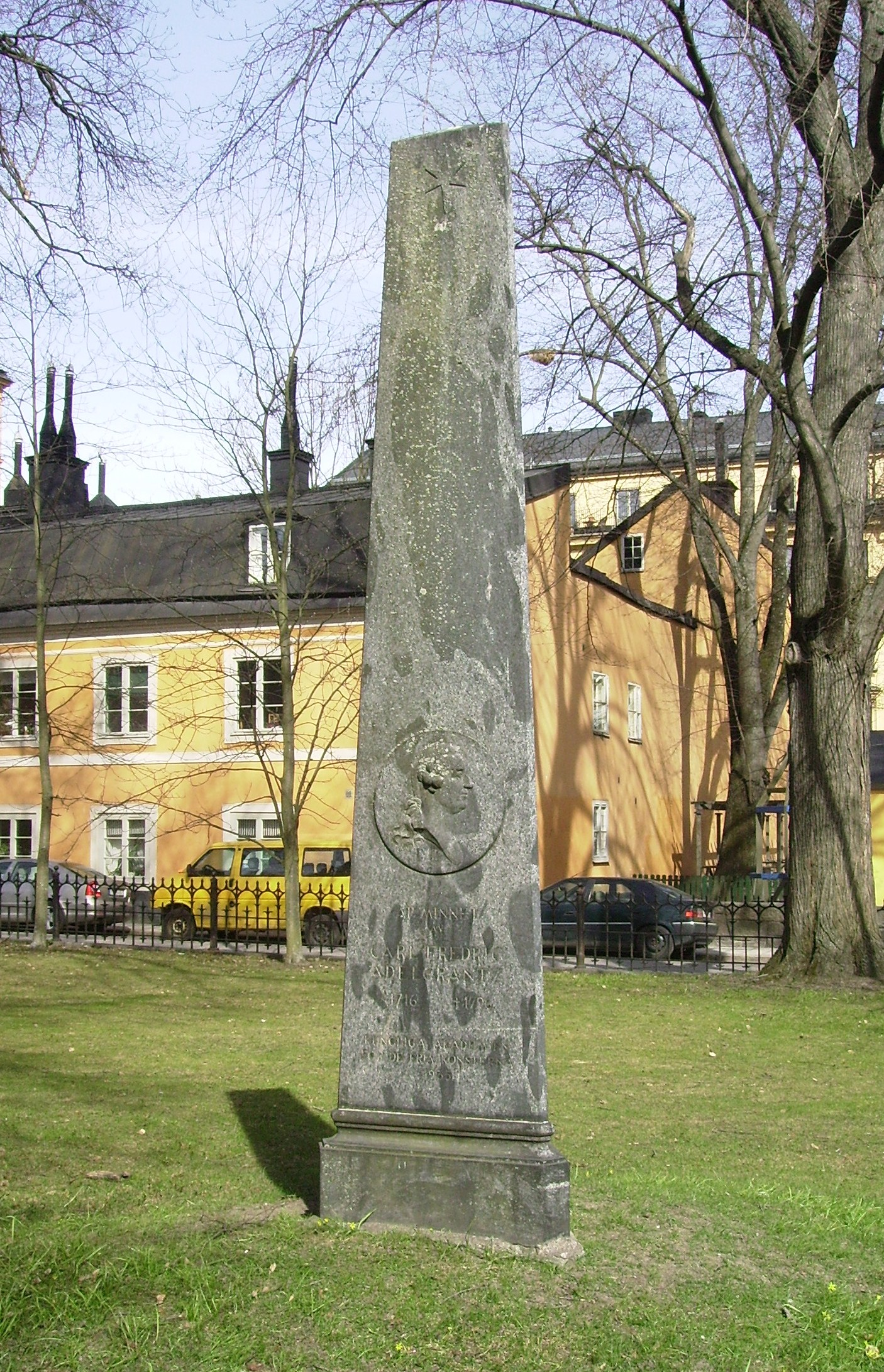 Picture of Carl Fredrik Adelcrantz's grave at Katarina kyrkogård in Stockholm